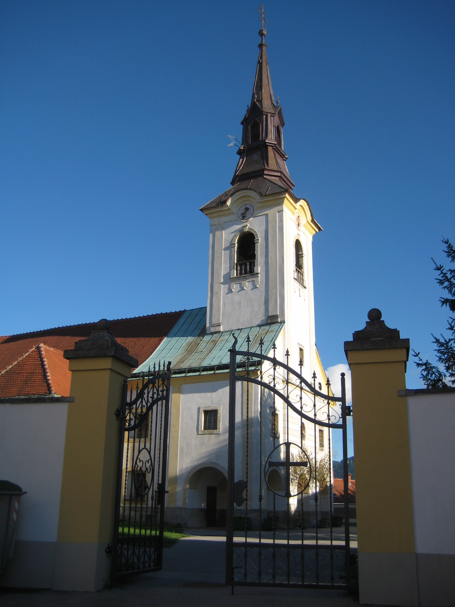 Šempeter in Savinjska dolina, Slovenia. (Roman necropolis site.) Church of St. Peter